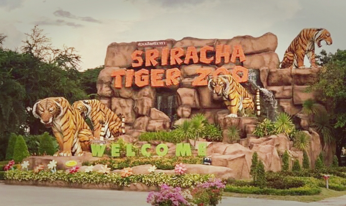 from the collection of Harikiran Hasanabada